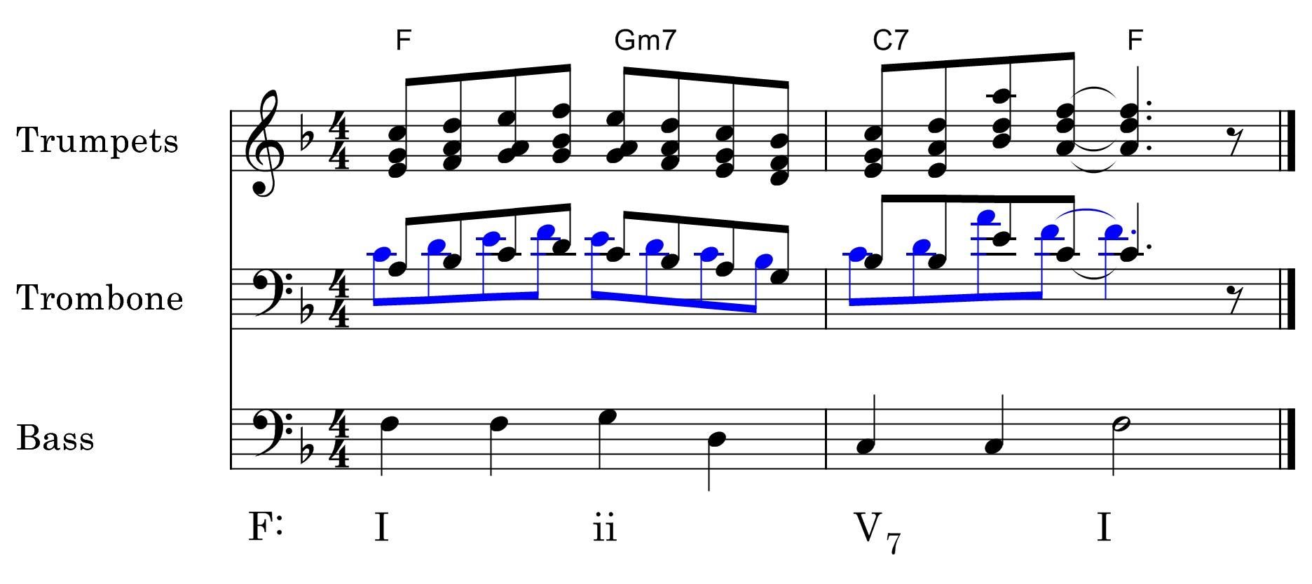 5-part 4 voice sectional harmony in open voicing. The melody is doubled an octave below.